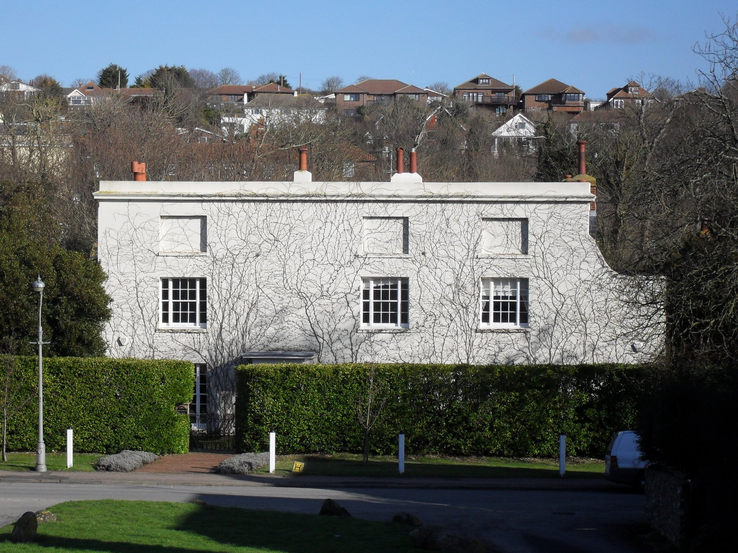 Ovingdean Grange, Greenways, Ovingdean, City of Brighton and Hove, England. A circa 17th-century farmhouse which has been converted into a large house. Listed at Grade II by English Heritage (NHLE Code 1380552)